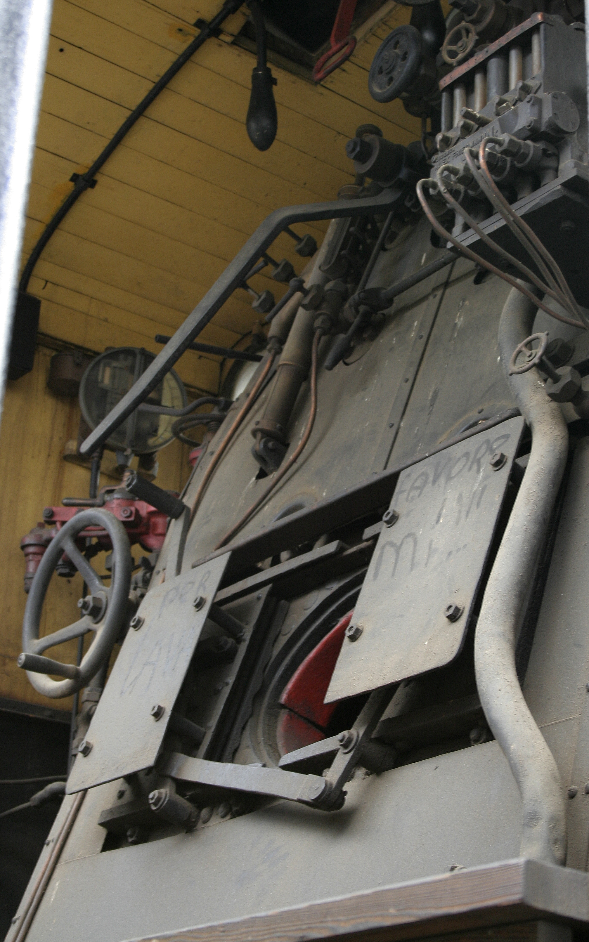 Command cabin of locomotive FS 744